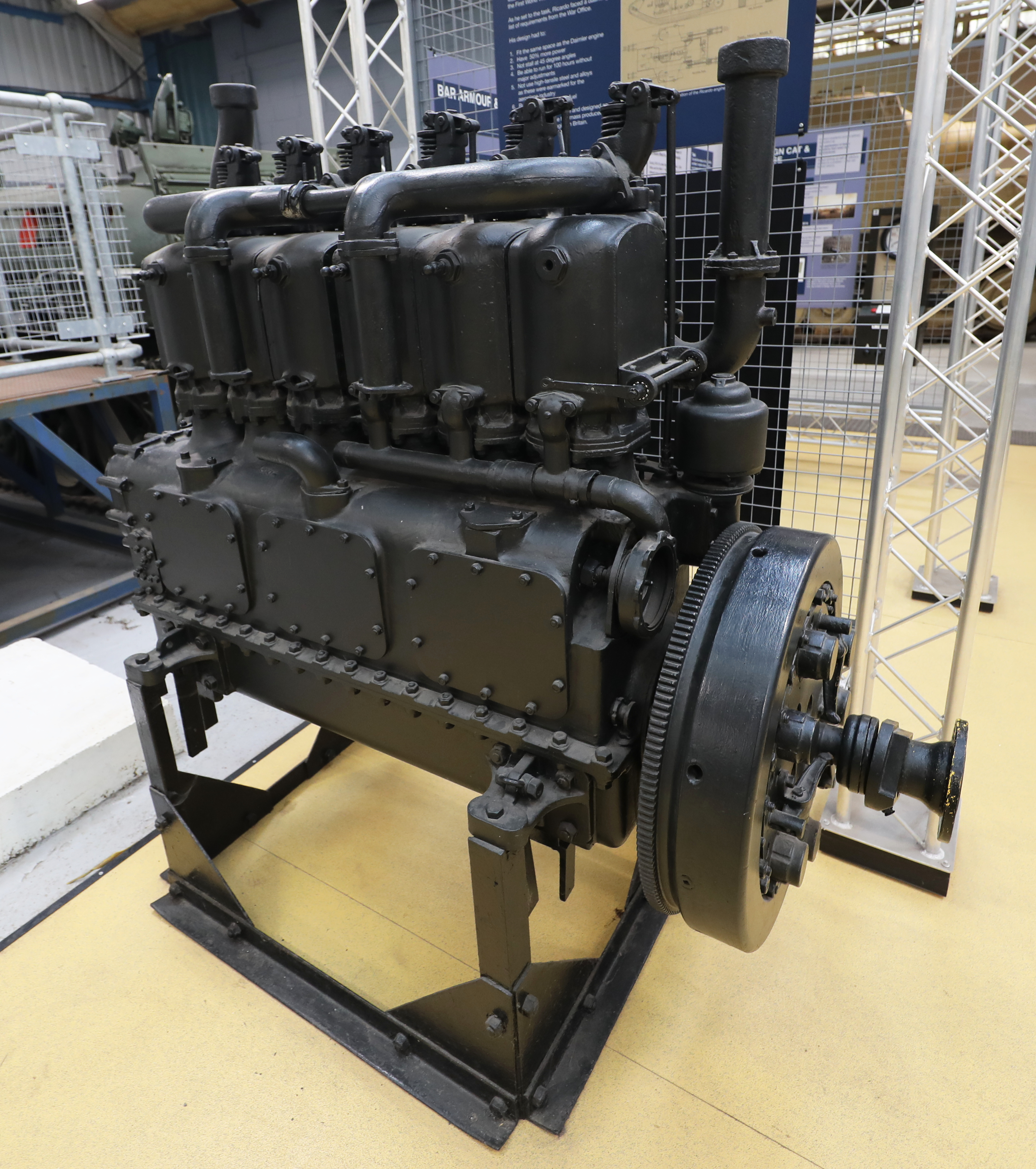 Photo of a Ricardo tank engine